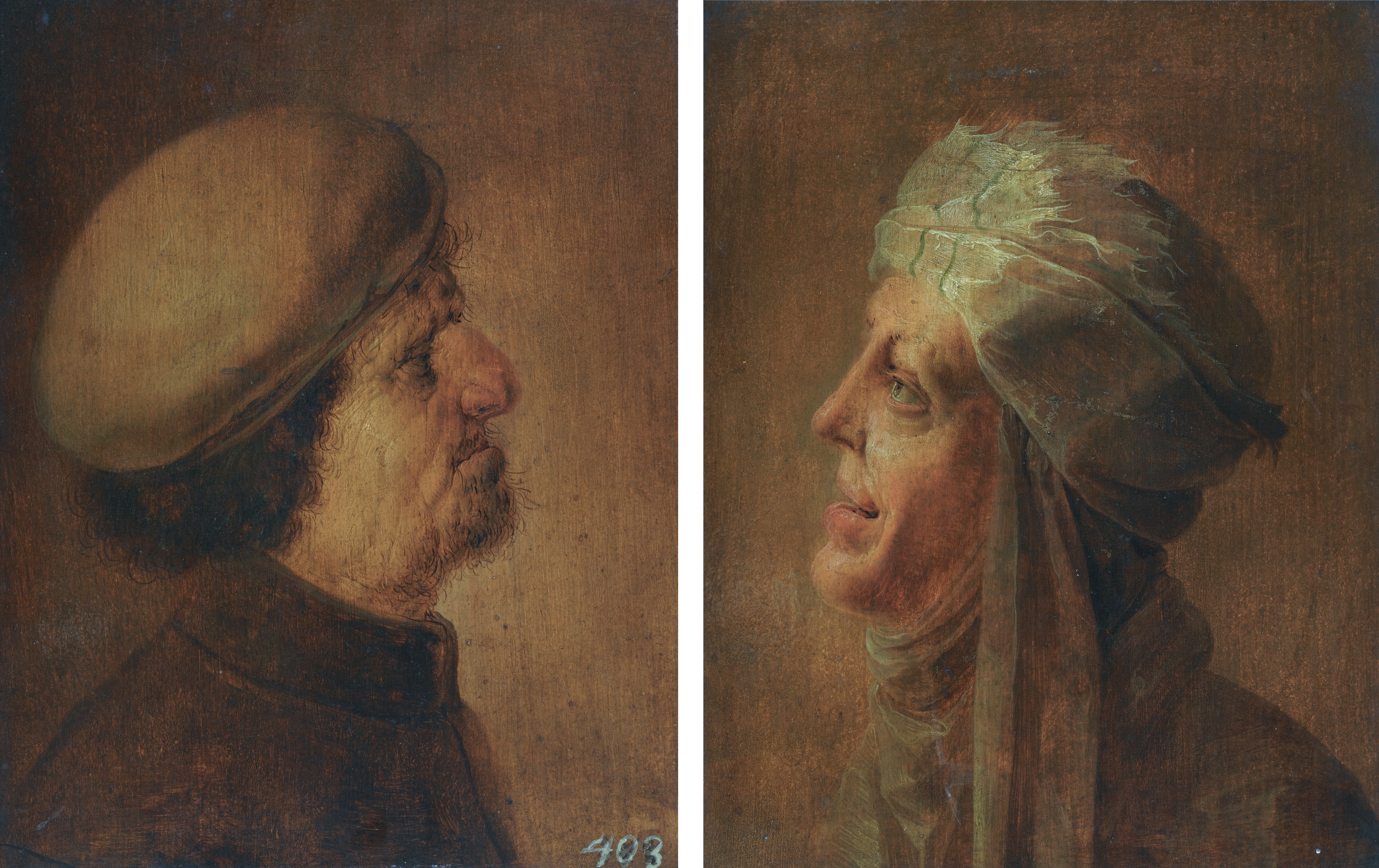 Heads of an old man and an old woman oil on panel 24.7 x 19.3 cm each